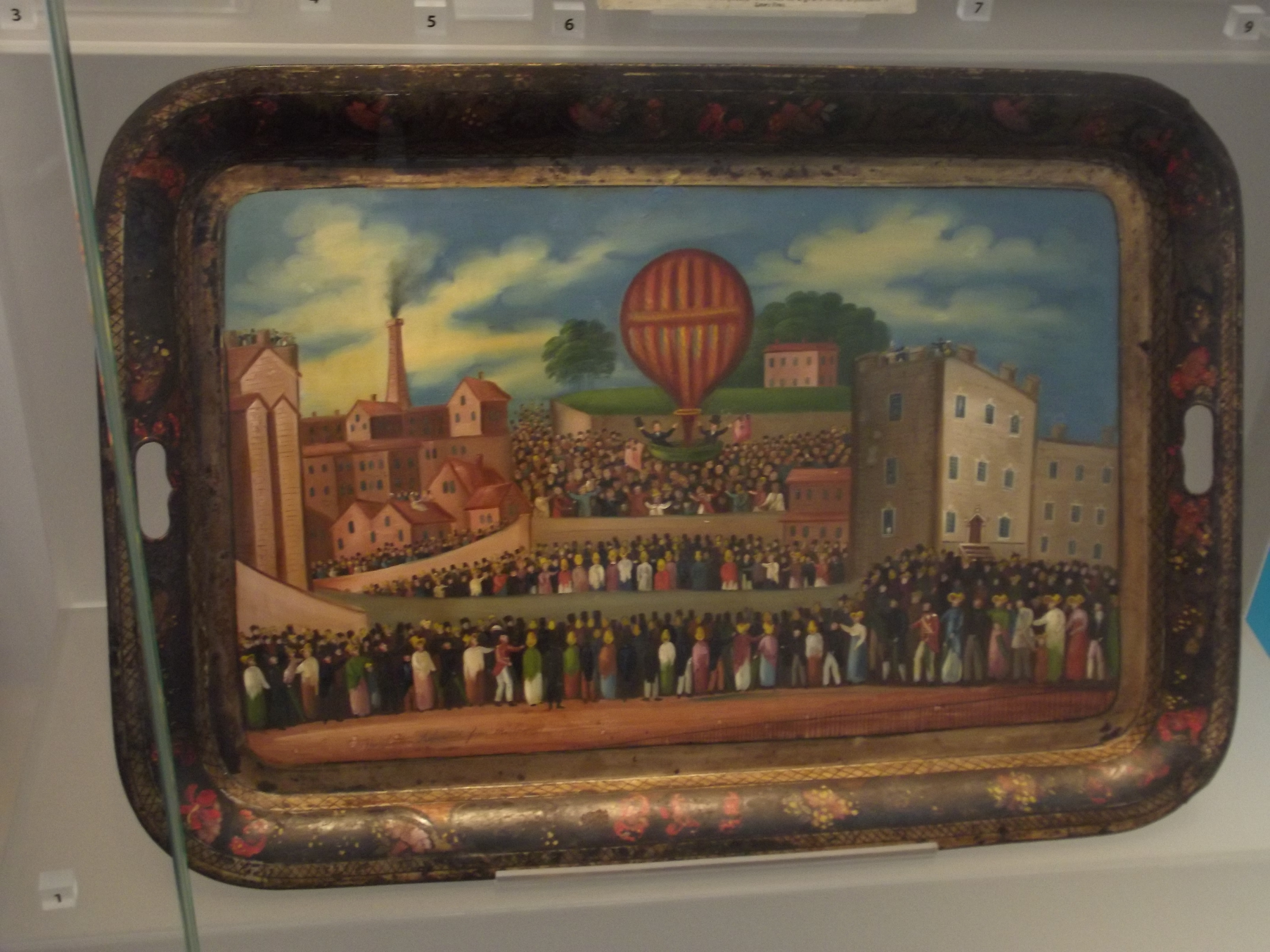 Japanned tea tray depicting Mr Sadler's Ascension from the Crescent, 13th October 1823. Birmingham History Galleries - Birmingham its people, its history - A Stranger's Guide to 18th Century Birmingham - Japanned tray